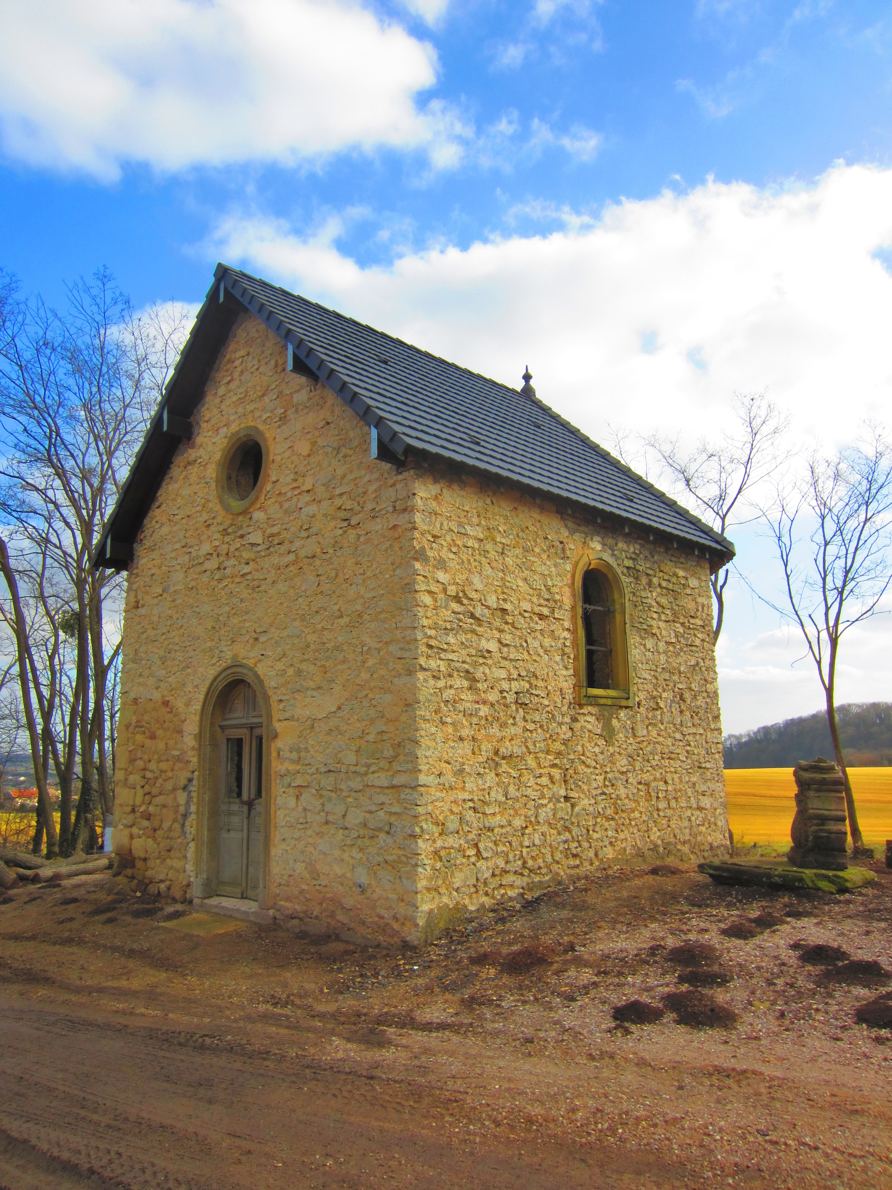 Guinkirchen chapel